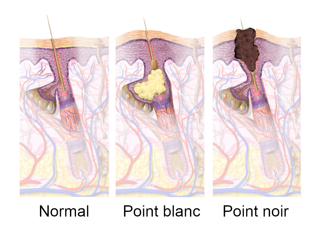 Acne. See a full animation of this medical topic.